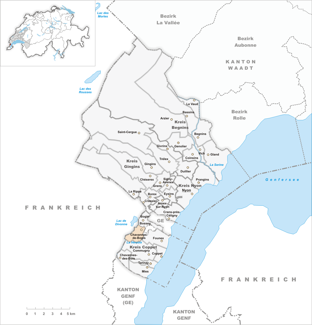 Municipality Chavannes-de-Bogis